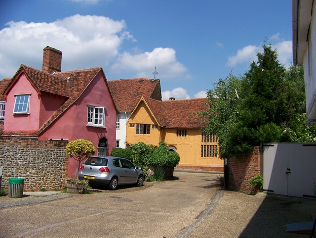 Some of the colourful buildings beside the Guildhall of Corpus Christi at Lavenham